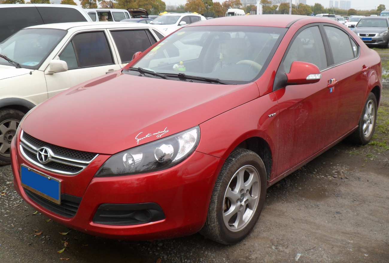 JAC Heyue photographed in Anting, Shanghai municipality, China.